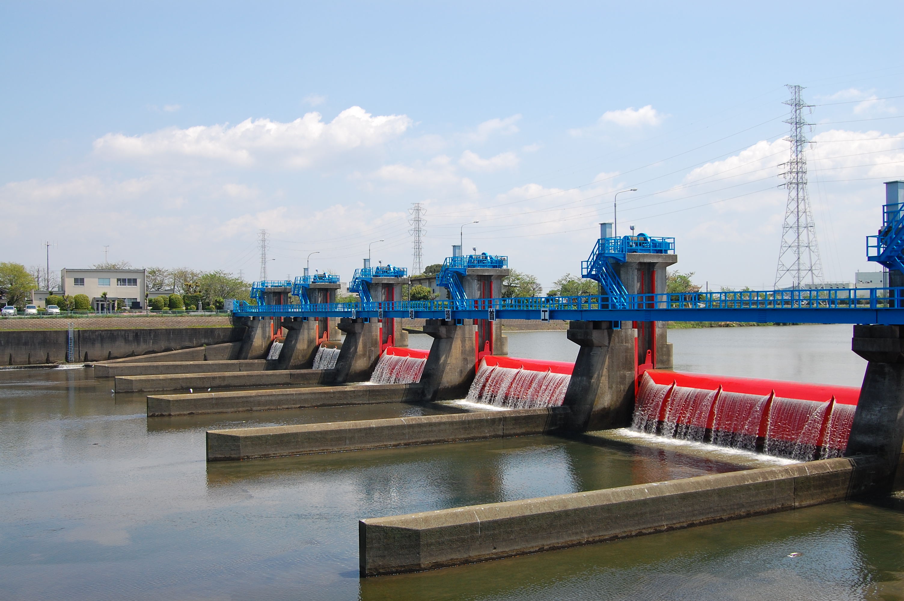 Picture's location is "ObitsuSeki". I photographed from Gion in Kisarazu city.